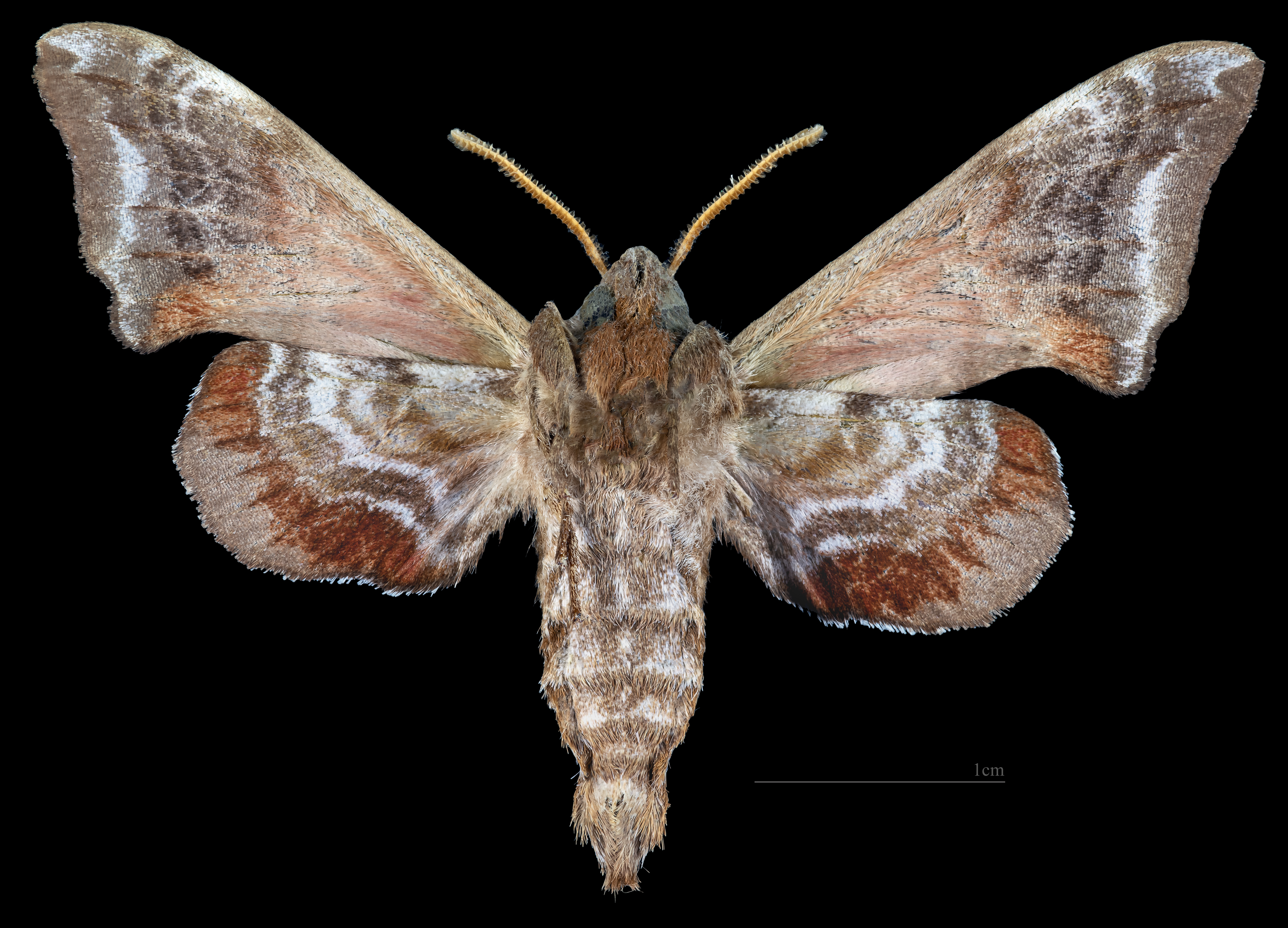 Smerinthus tokyonis - △ Ventral side Collection of the Mathematician Laurent Schwartz